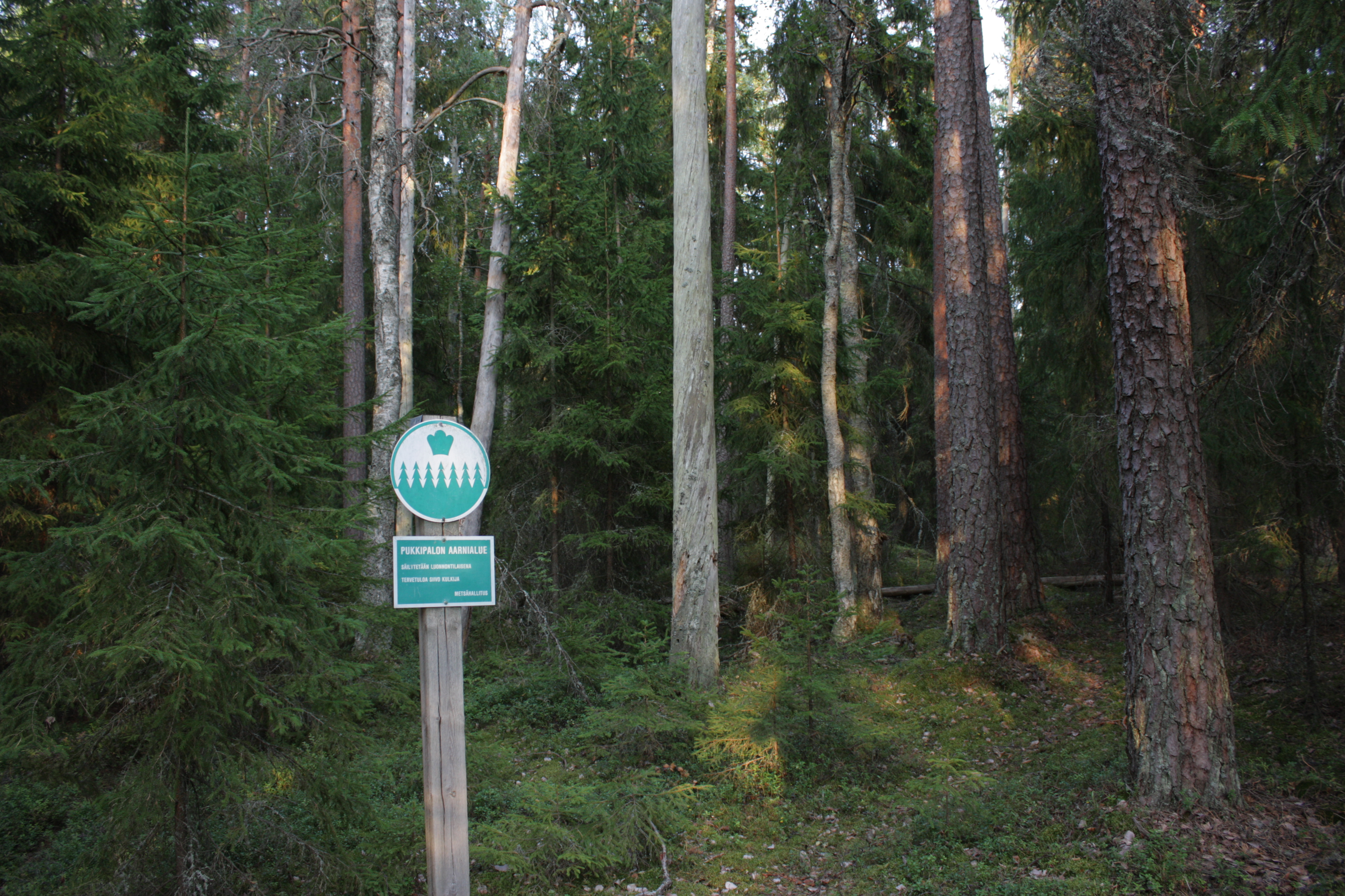 Pukkipalo old-growth forest in Kurjenrahka national park, Finland. The forest contains trees of diverse ages and a few species. In the picture you can see spruces, pines and birch trees. The smallest spruces are just seedlings and the oldest pines are standing snags (dead trees) or fallen and decaying.